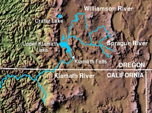 Map of Williamson River, Sprague River and surrounding area, OR / CA